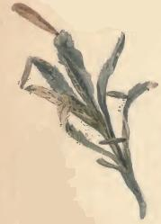 Stainton’s Natural History of the Tineina (1855–1873): Coleophora auricella sprig of Stachys recta with mined leaves and several larva-cases attached